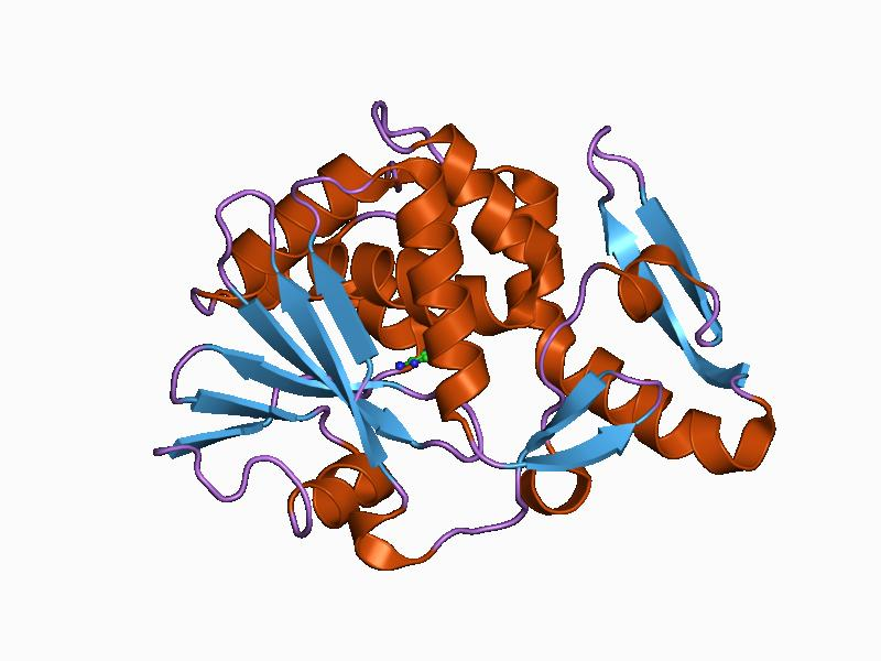 Cartoon representation of the molecular structure of protein registered with 1aha code.